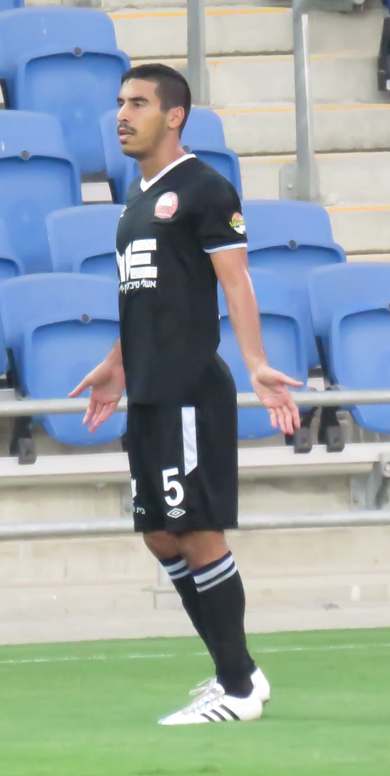 Hapoel Ra'anana vs. Hapoel Be'er Sheva - September 12, 2015